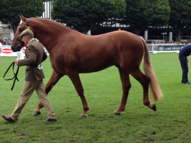 Carrigfada Troy at the 2016 Dublin Horse Show, Irish Draught Stallions class. Chestnut Class 1 Irish Draught Stallion, from Castlegate Stud, Oldcastle, Swinford, Co. Mayo. (IHR 5611601)